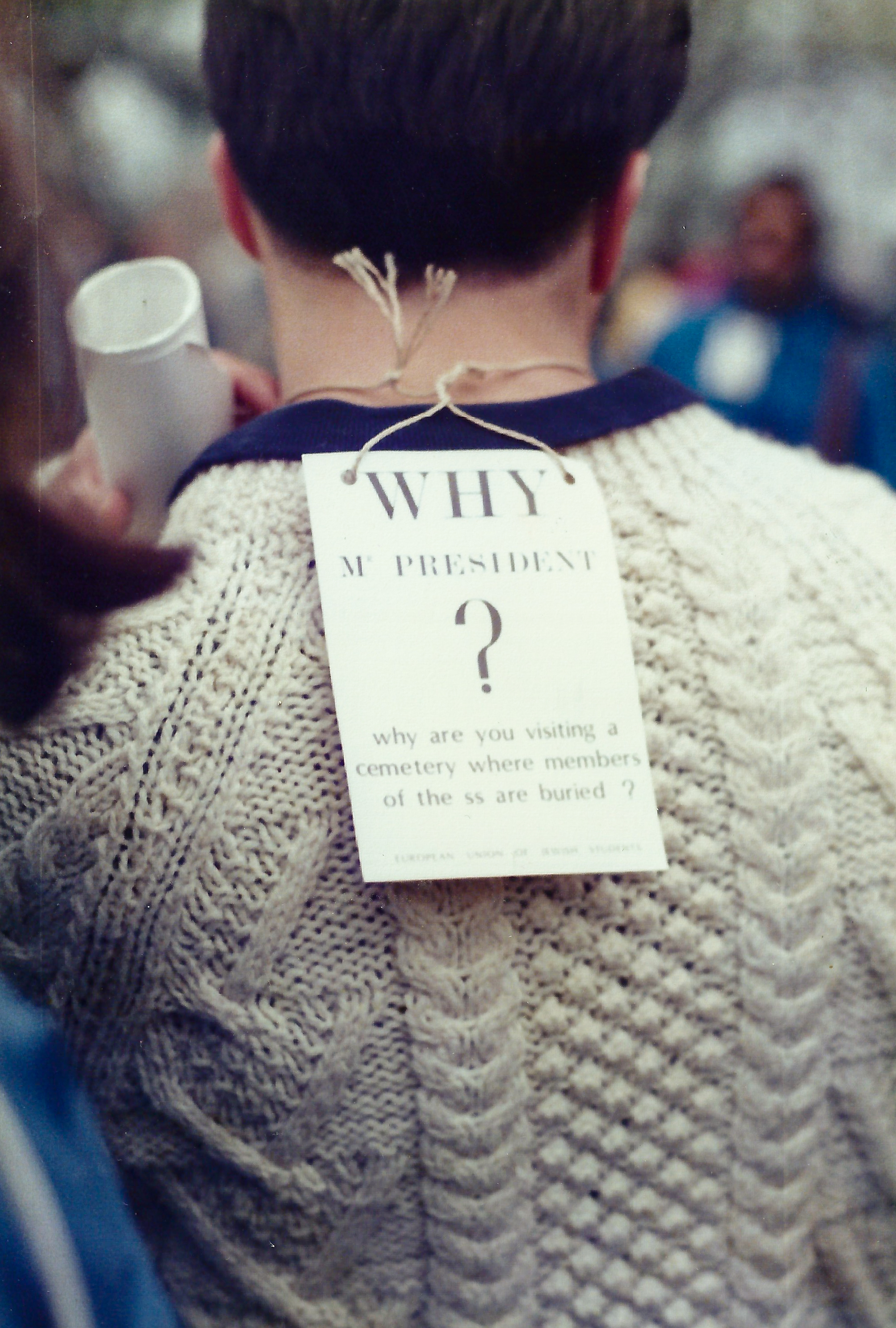 Ceremonial visit by U.S. President Ronald Reagan to the Kolmeshöhe Cemetery, near Bitburg, West German in May 5, 1985, with German Chancellor Helmut Kohl // Detail: protester carrying badge saying "Why Mr. President? Why are you visiting a cemetery where members of the ss are buried?" (subline probably: European Union of Jewish Students)